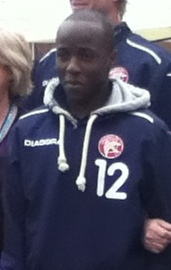 Febian Brandy pictured in 2012.